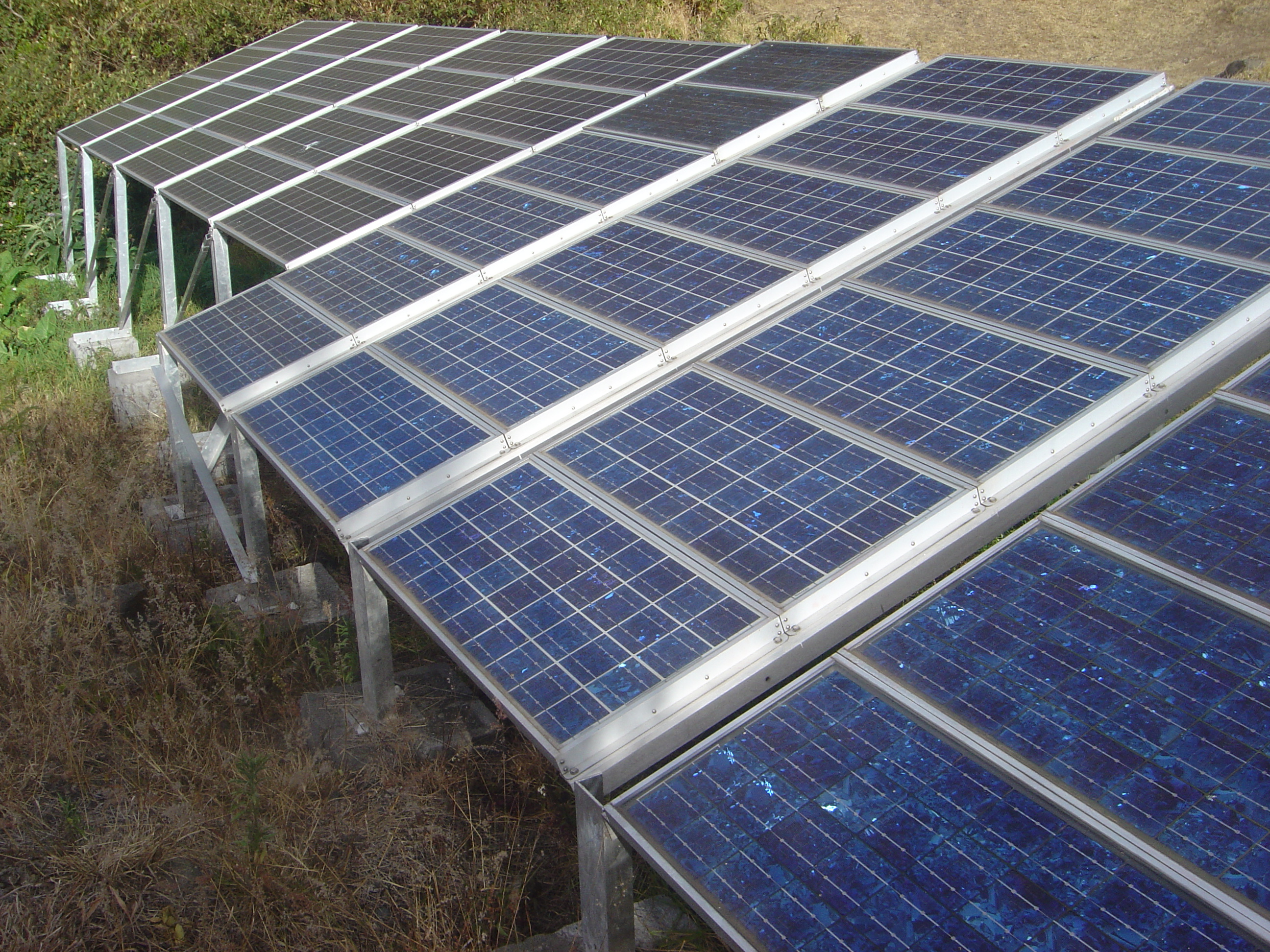 A solar panel in Marla, Cirque de Mafate, Réunion